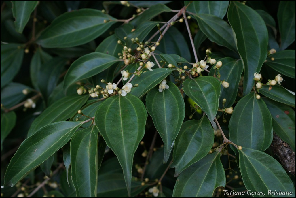 Tree to 10m. Family: Myrtaceae Australian rainforest native (SE Queensland) Mt. Coot-tha Botanic Garden